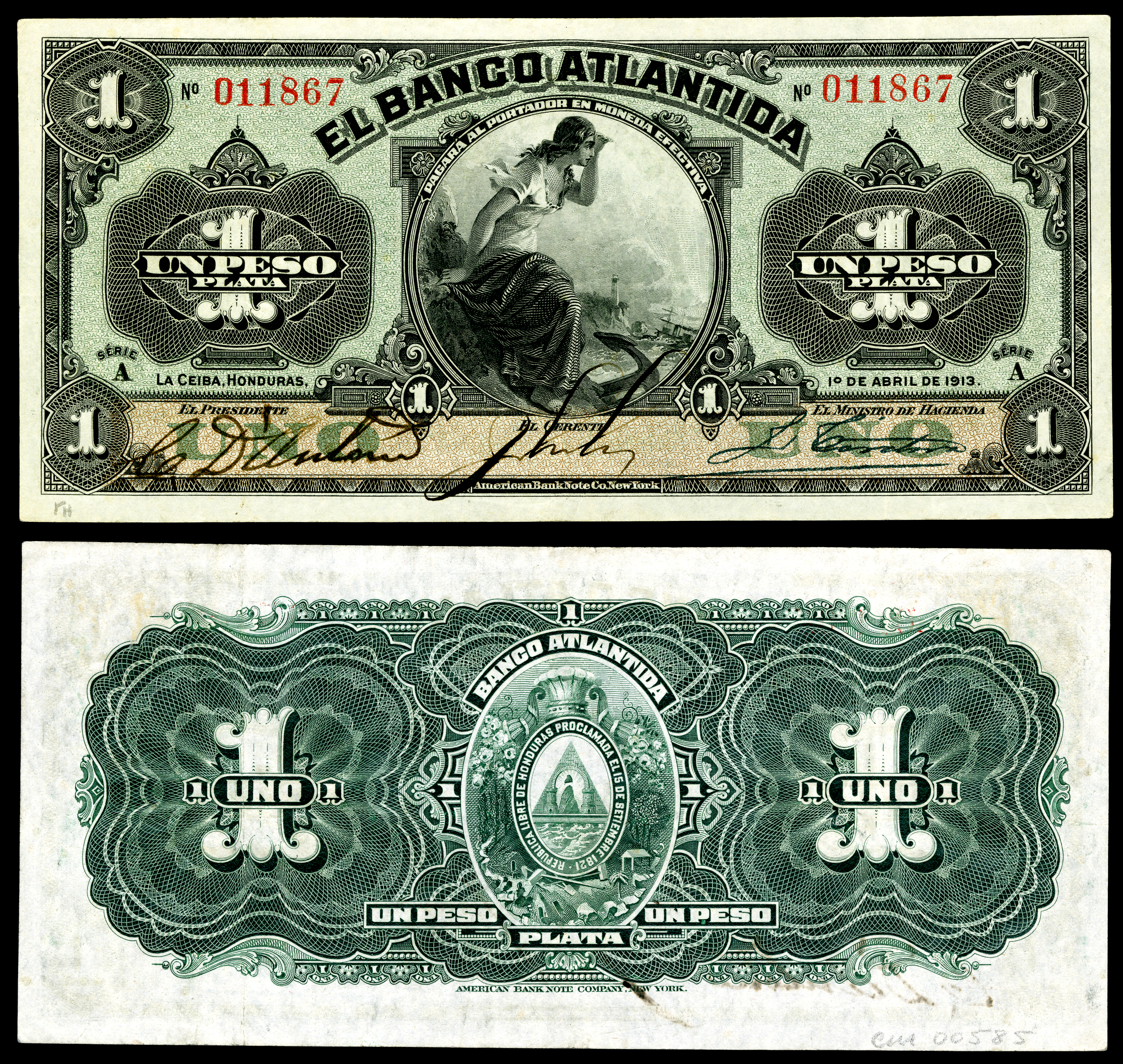 Honduras, Banco Atlantida, 1 peso (1913). Engraved by the American Bank Note Company. Hand-signed.